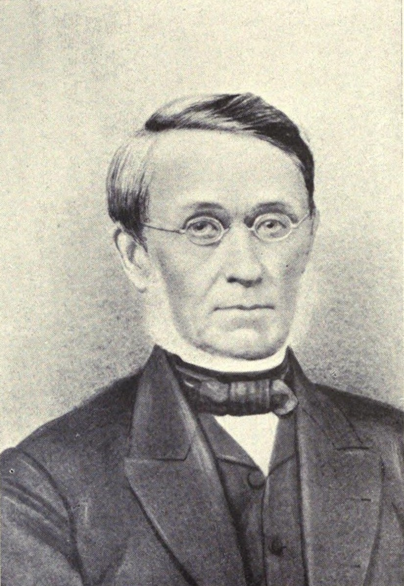 Rev. Ephraim Weston Clark (1799-1878), came to Hawaii in 1828 with the Third Company of missionaries. He served as pastor of Kawaiahao Church from 1848 to 1863.